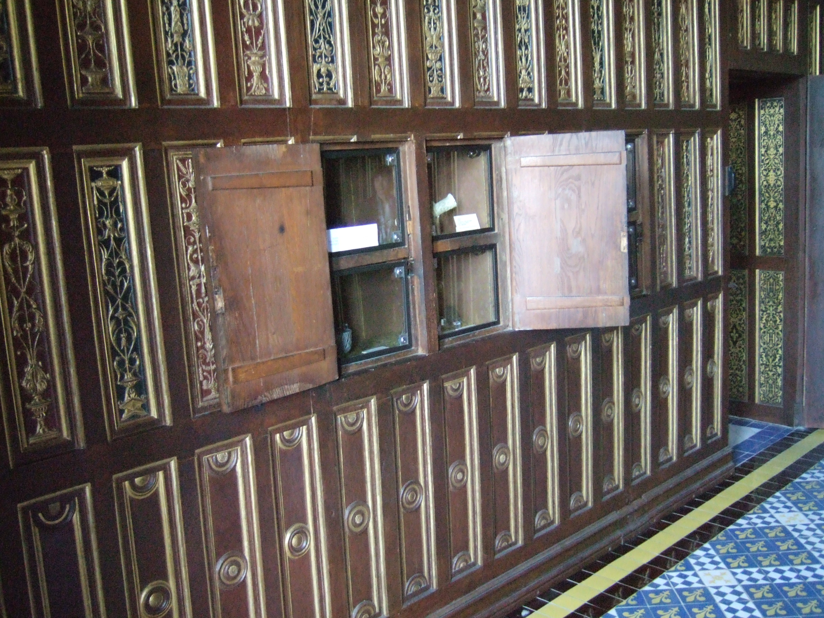 The infamous "chambre de secrets" at the Chateau de Blois, rumoured to be where Catherine de Medici kept her poisons. Very likely apocryhal. Taken by me.